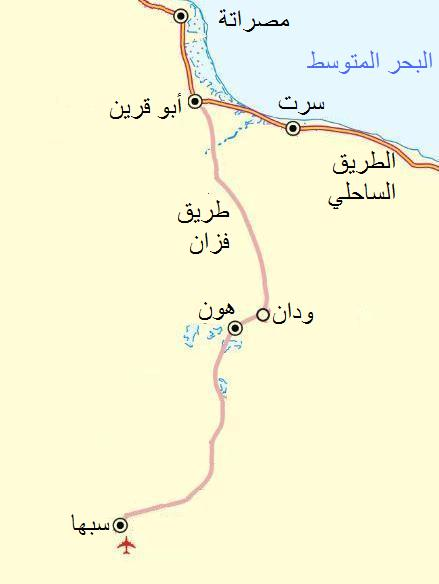 A map of mid-Libya featuring parts of Via Balbia and Fezzan road.